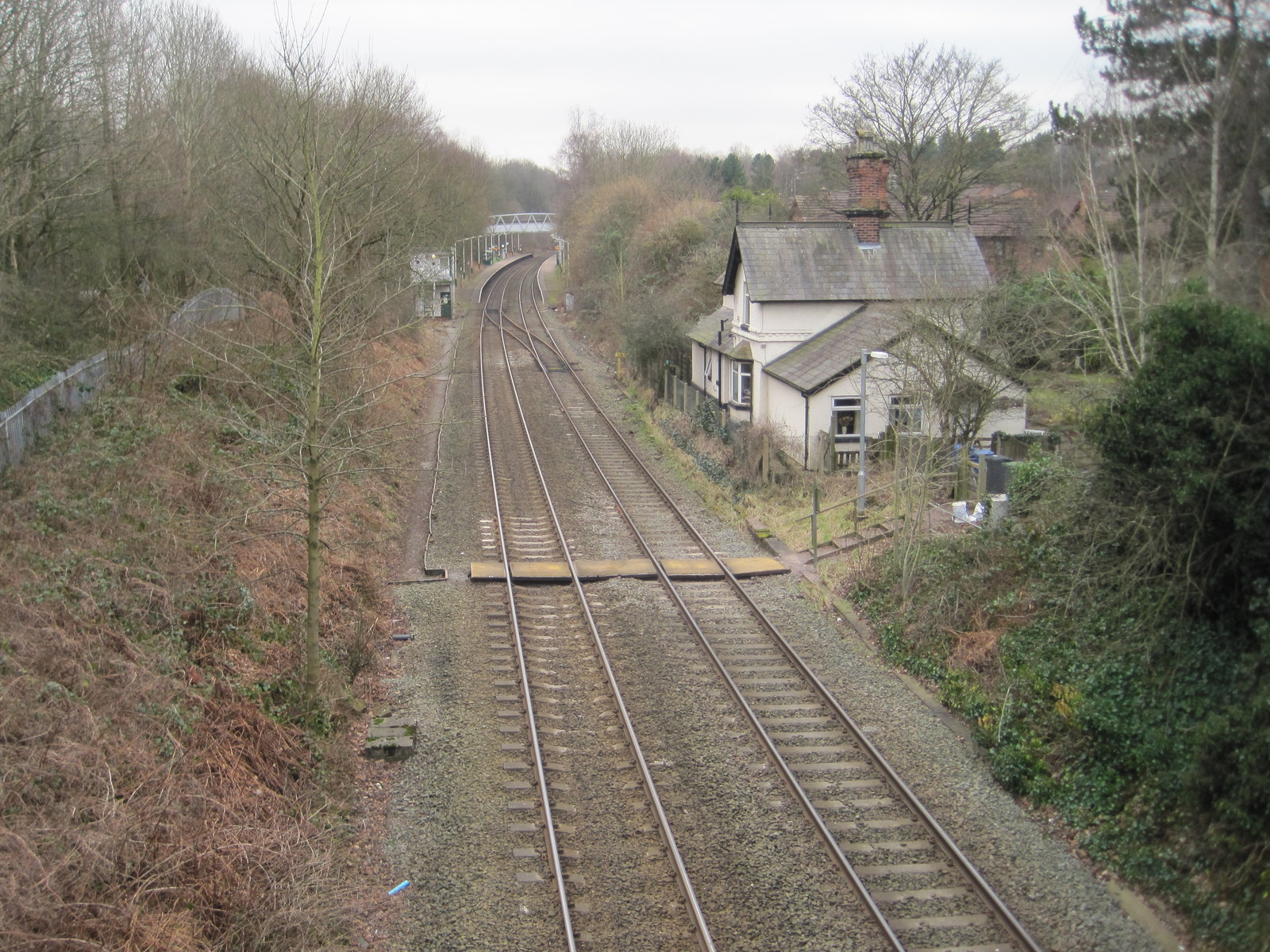 Norton railway station (site), CheshireOpened in 1852 by the Birkenhead Joint Railway on the line from Chester to Warrington, this station closed in 1952. View south west towards Runcorn East (in the distance) and Chester.